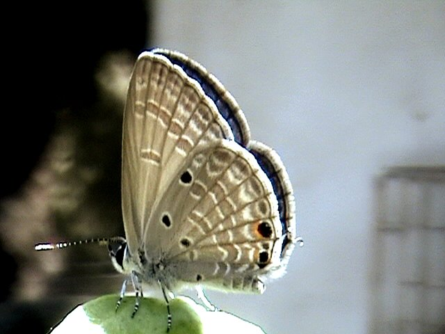 Plains cupid (Edales pandava) shot in own garden